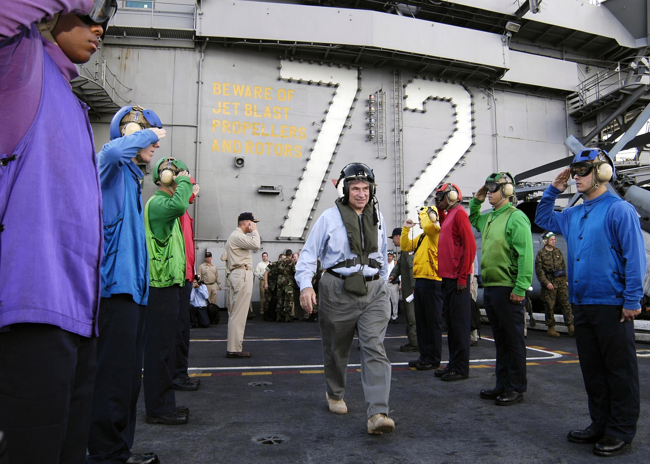 Indian Ocean (Jan. 15, 2005) Deputy Secretary of Defense Paul Wolfowitz departs USS Abraham Lincoln (CVN 72) after visiting with the ship and her crew to discuss and congratulate their humanitarian efforts in Sumatra, Indonesia. The Abraham Lincoln Carrier Strike group is currently operating in the Indian Ocean off the coast of Indonesia and Thailand in support of Operation Unified Assistance, in the wake of the Dec. 26 Tsunami that struck South East Asia. U.S. Navy photo by Photographer’s Mate Airman Jordon R. Beesley (RELEASED)